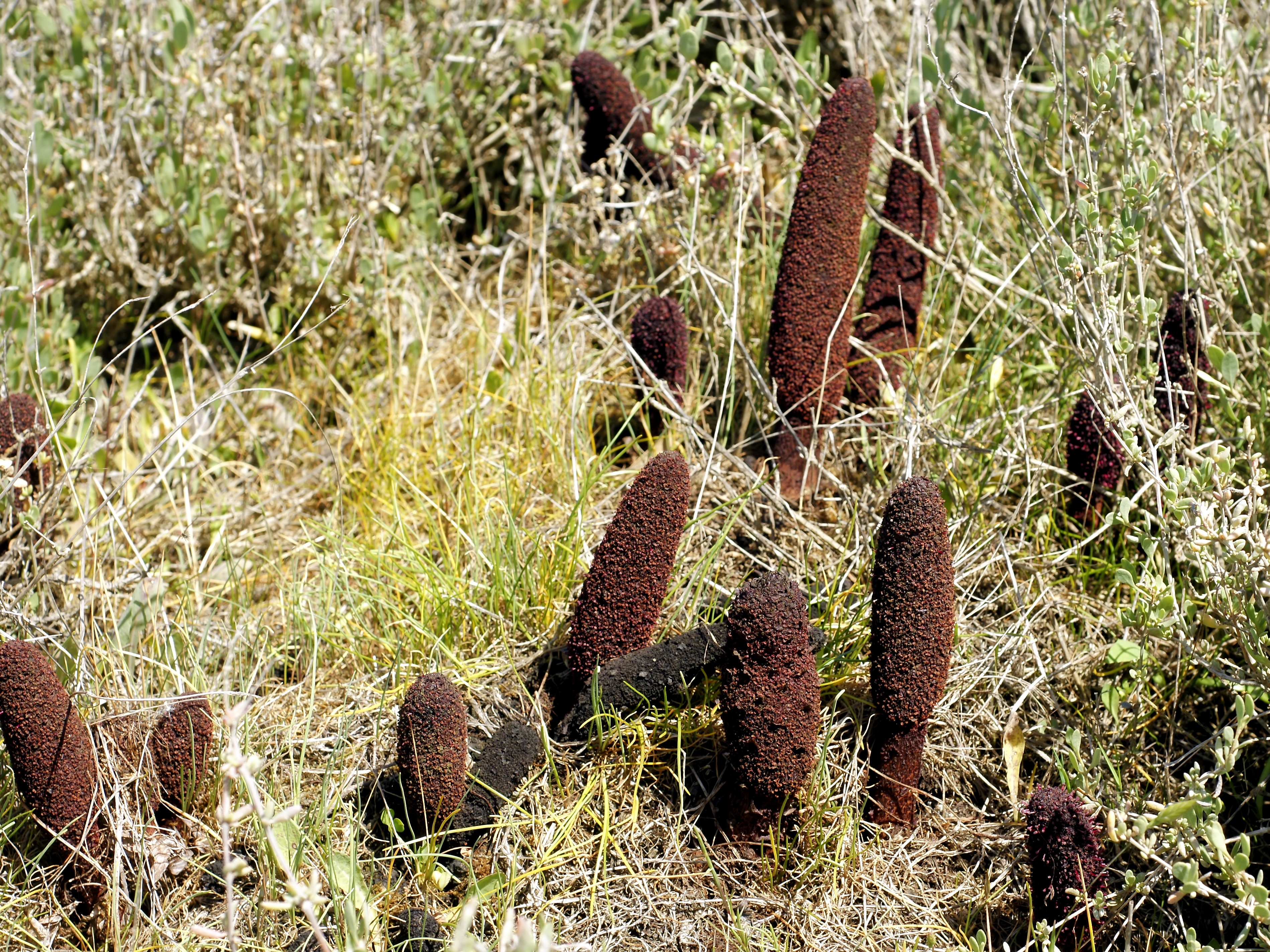 Holoparasites on Chenopodiaceae, close to Torregrande, Sardinia, Italy